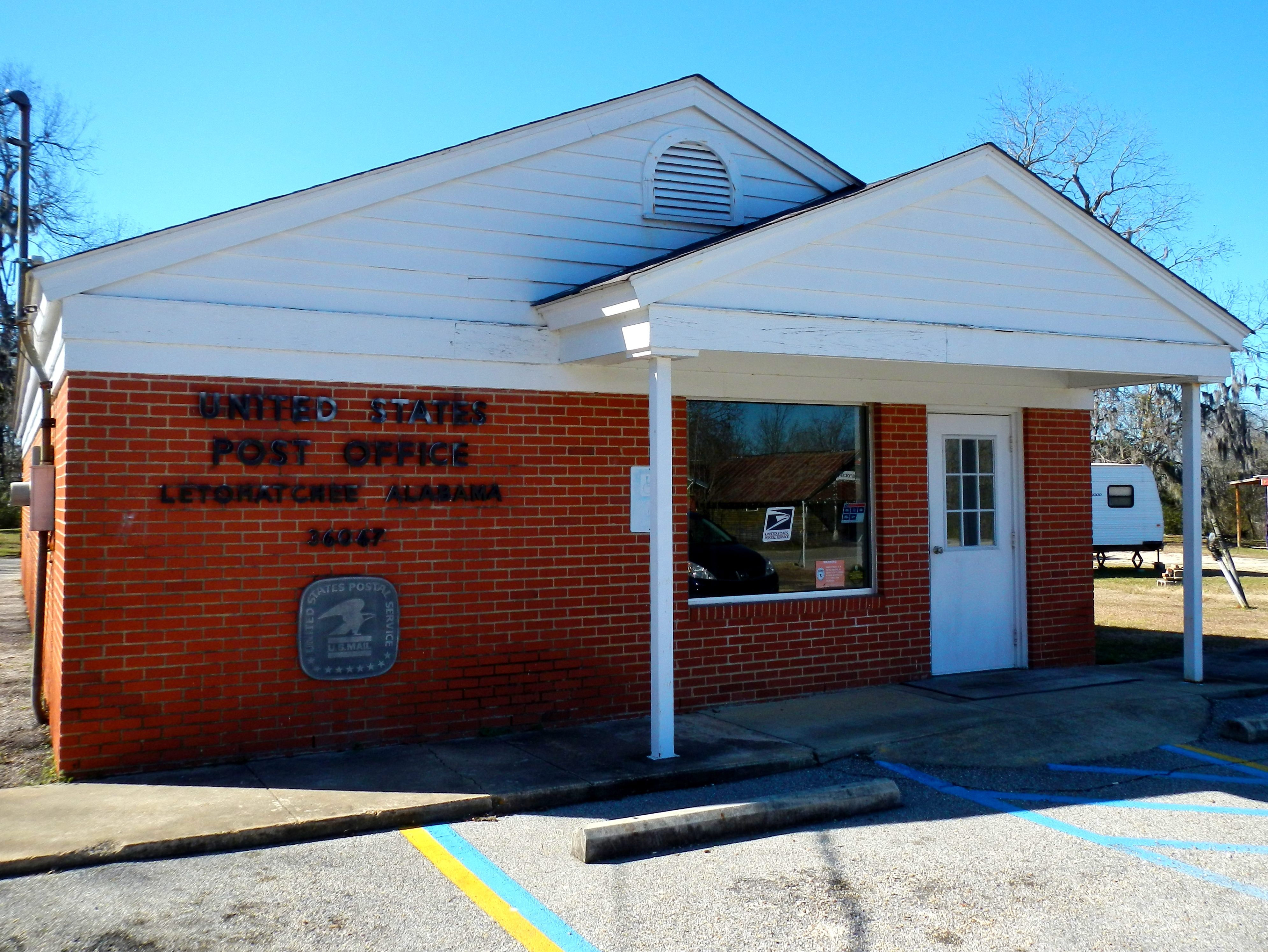 This is a photograph of the post office at Letohatchee, Alabama.